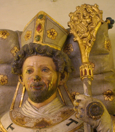 Statue of Otto of Bamberg, in Monastery of Saint Michael in Bamberg, Bavaria, Germany